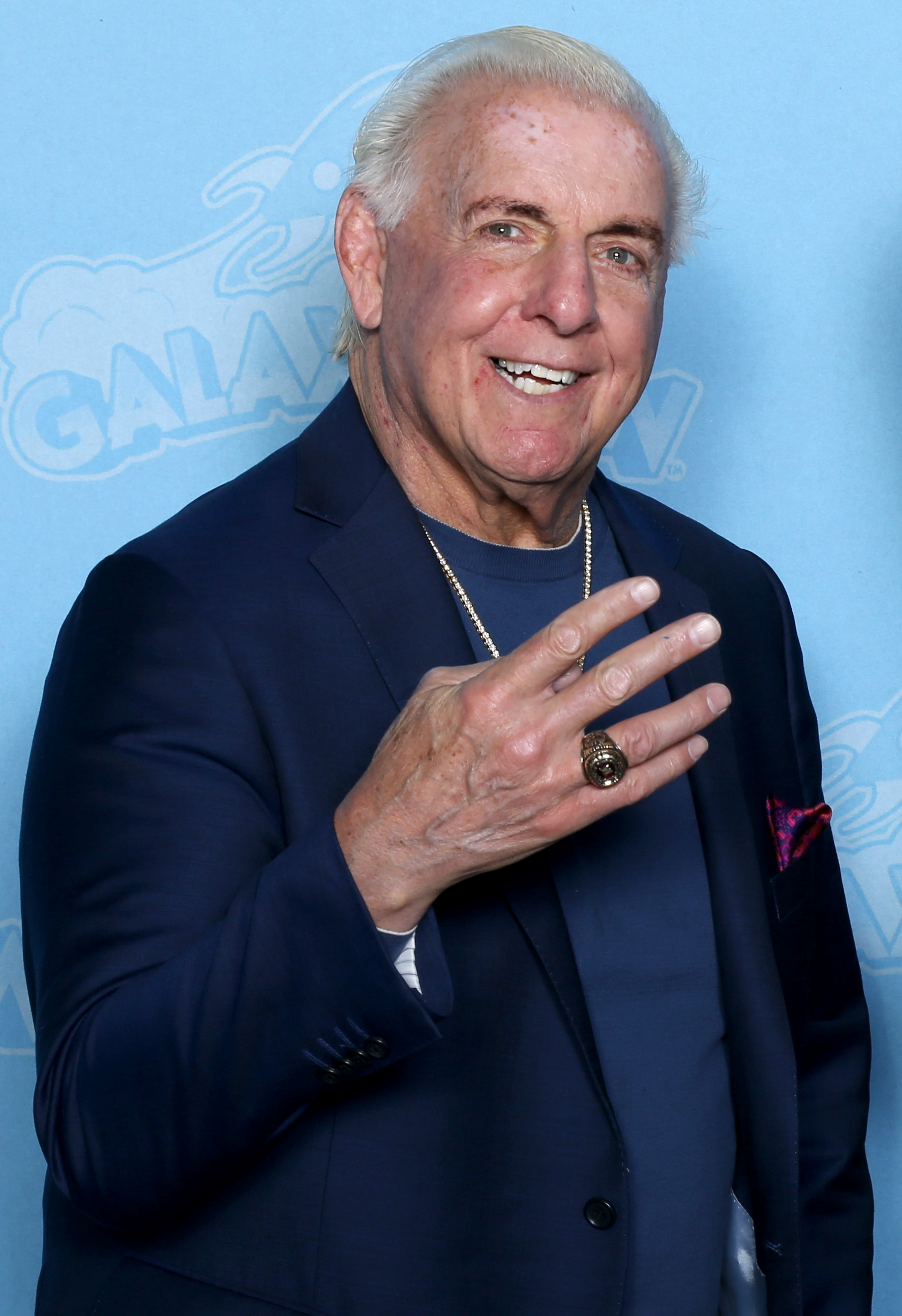 Ric Flair at GalaxyCon Louisville in 2019